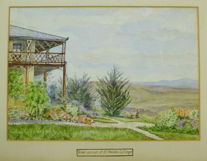 (Marianne) Harriet Mason (1845–1932), poor-law inspector - date unknown so set at 1932 - images from Kew Gardens